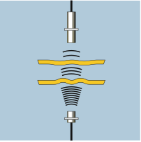 Graphic chart of an ultrasonic double sheet control's functional principle